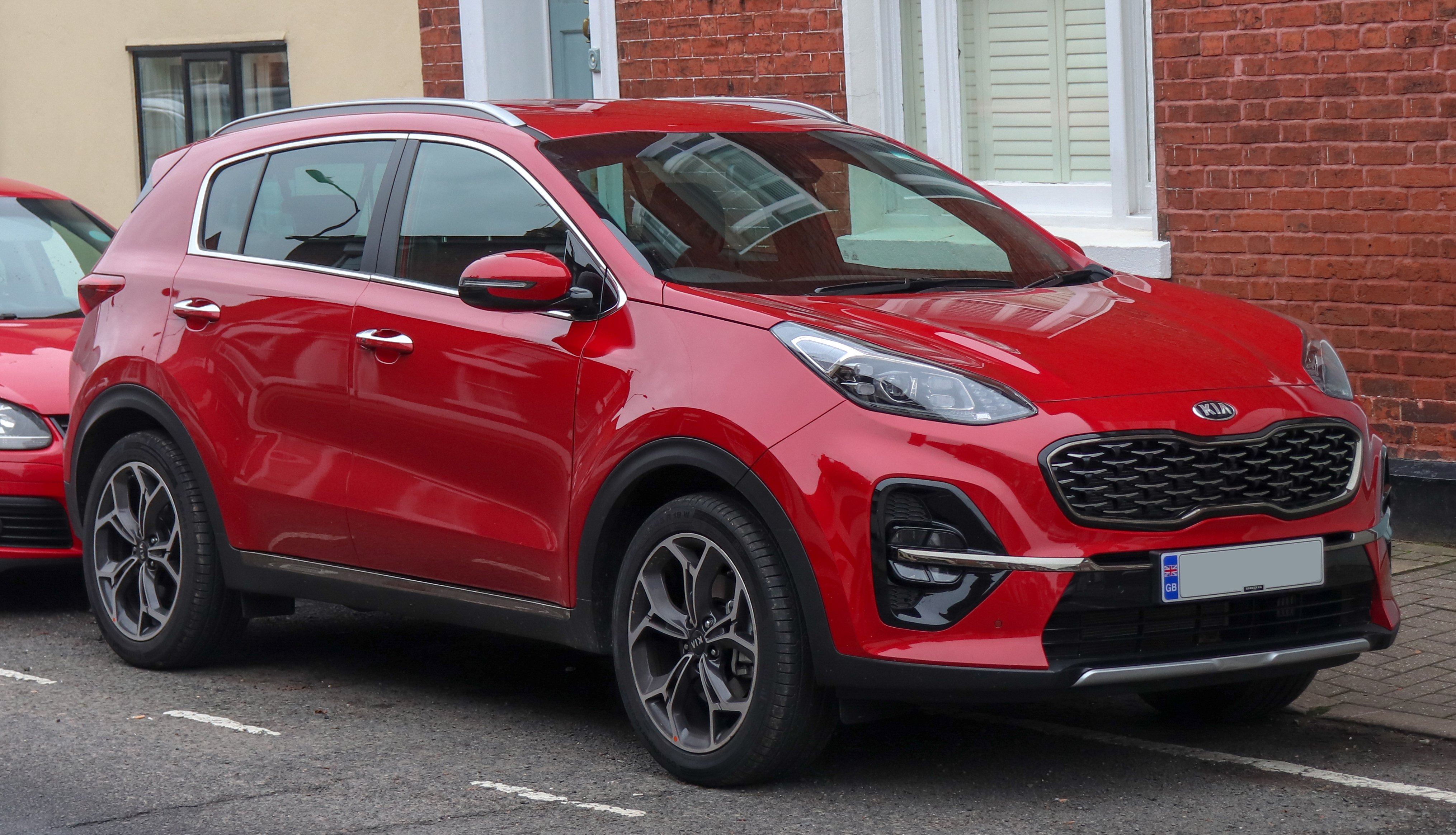 2018 Kia Sportage GT-Line ISG 1.6